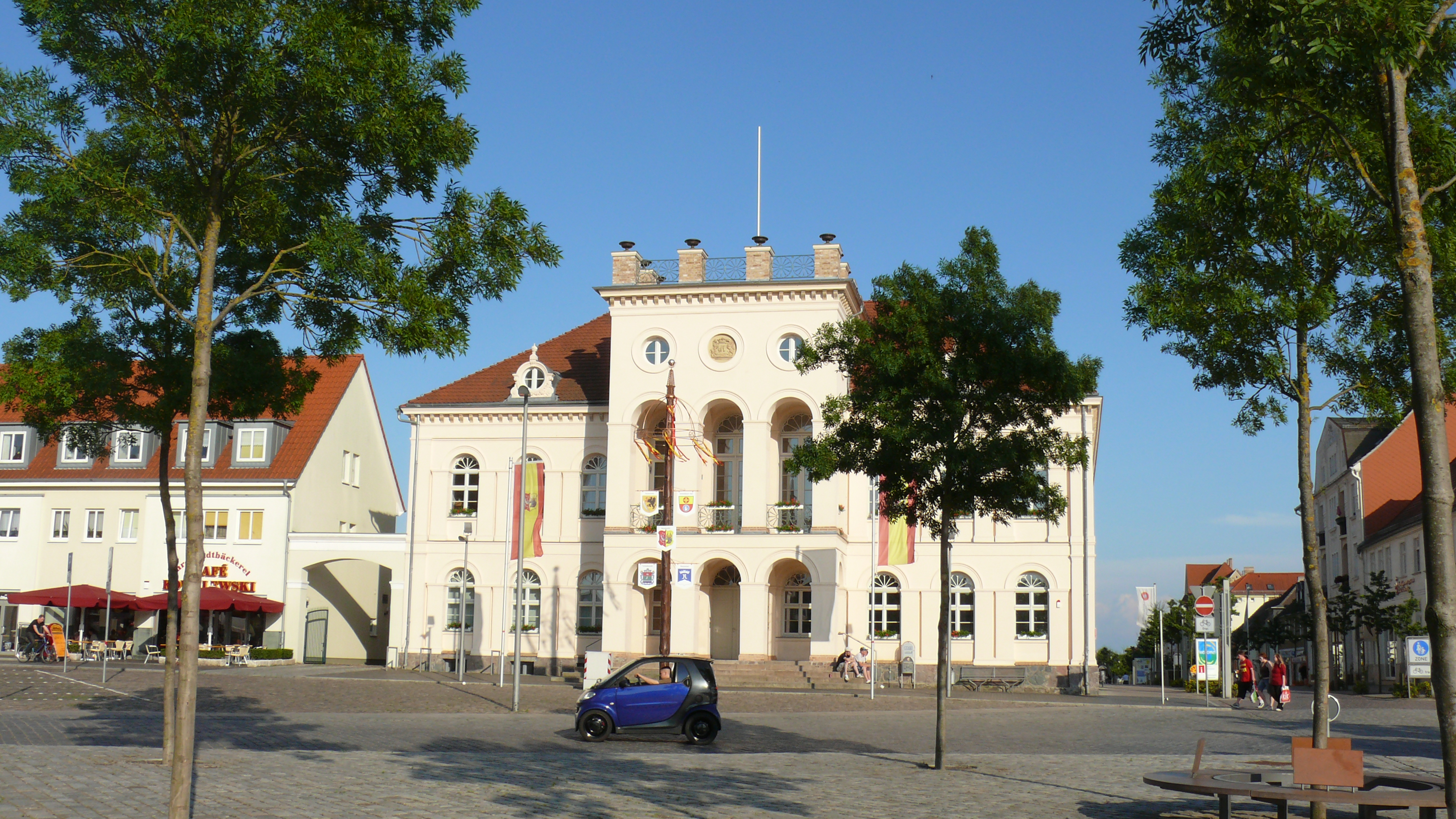 Neustrelitz,Mecklenburg-Vorpommern. City hall